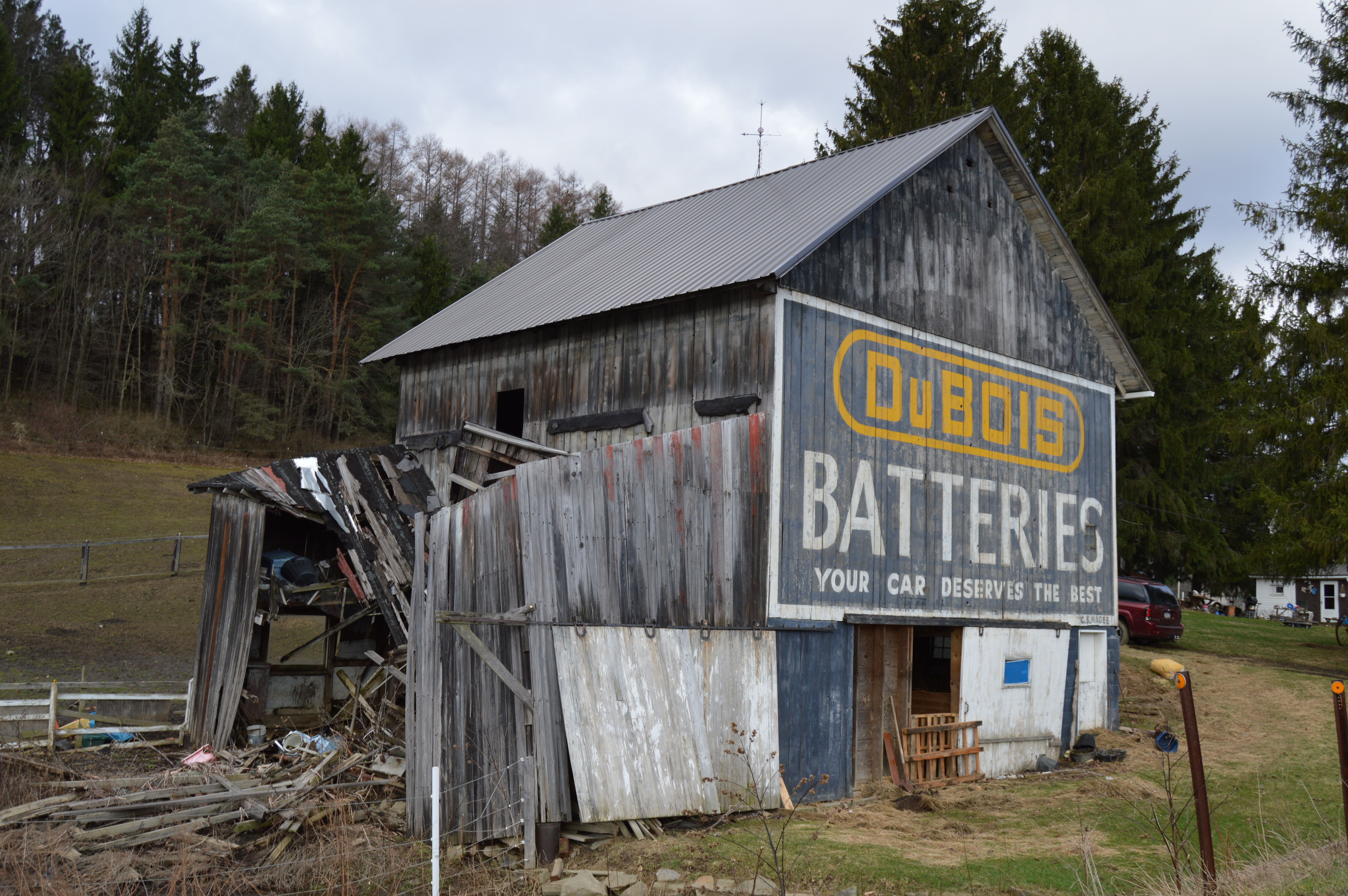 A variant on the common Mail Pouch Tobacco barns, instead advertising car batteries. Barn sits along the western side of Hepburn Road south of the U.S. Route 219 intersection and south of the city of DuBois in Sandy Township, Clearfield County, Pennsylvania, United States.